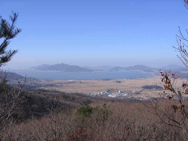 I took this photo of Ganghwa Island from atop Mt. Mani during the winter. My name is George Low and was attached to the S2 32nd Infantry 7th Division and assigned to Ganghwa Island 1947-1948 to bring the inhabitants up to date on all possible events. I fell in love with the Island and its people.